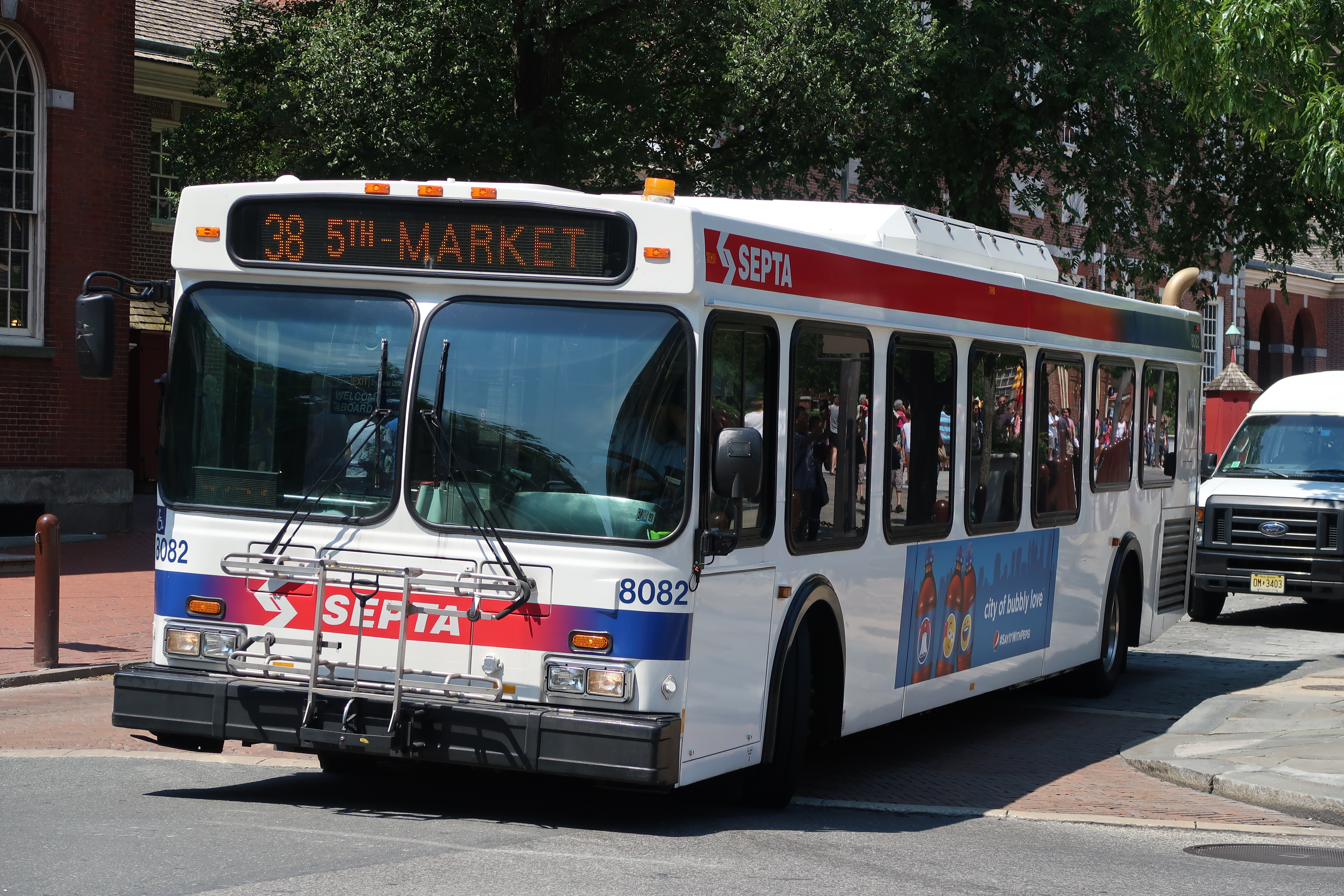 A bus from Philadelphia, June 20, 2016